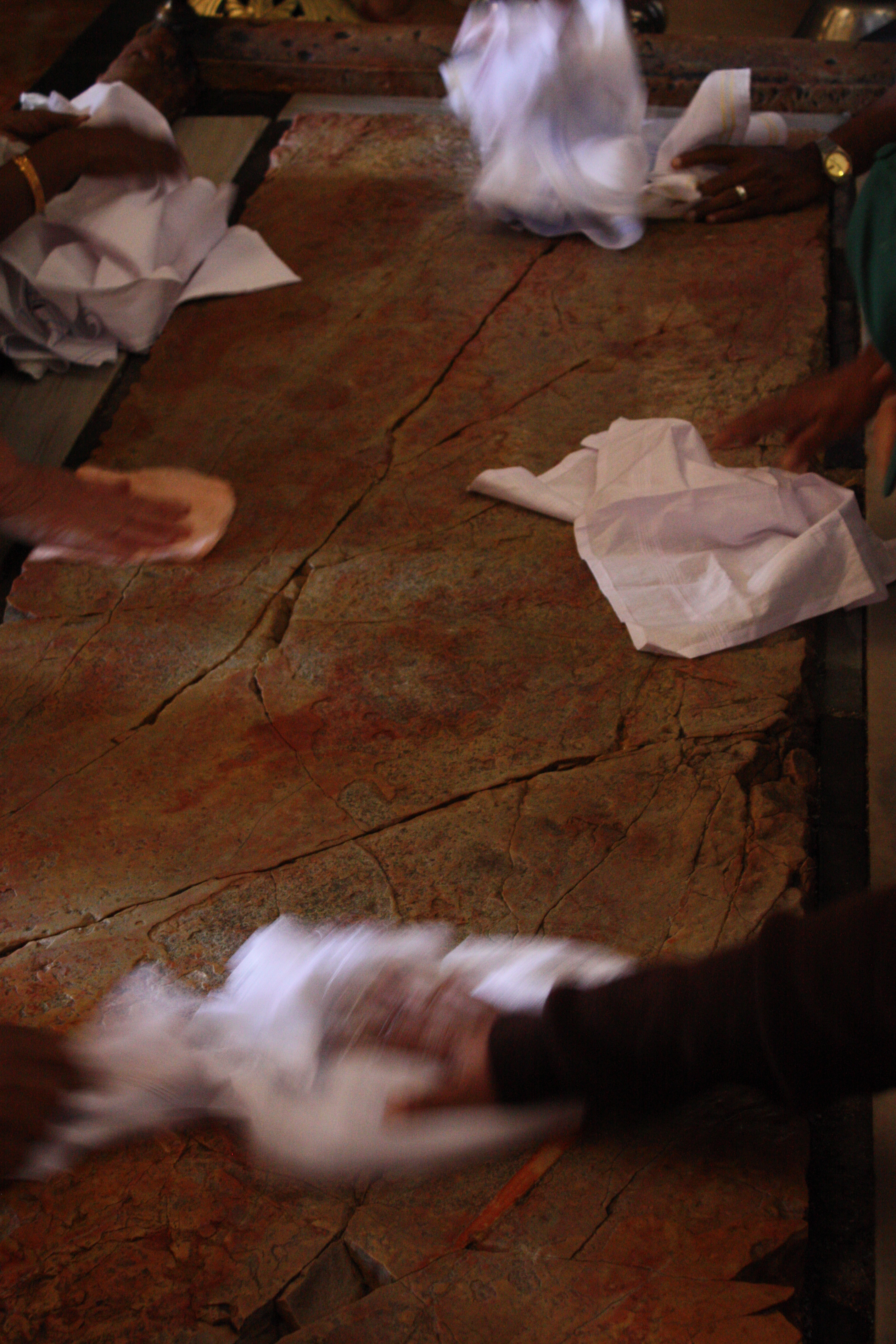 Israel - Jerusalem - The Old City - 143 Israel